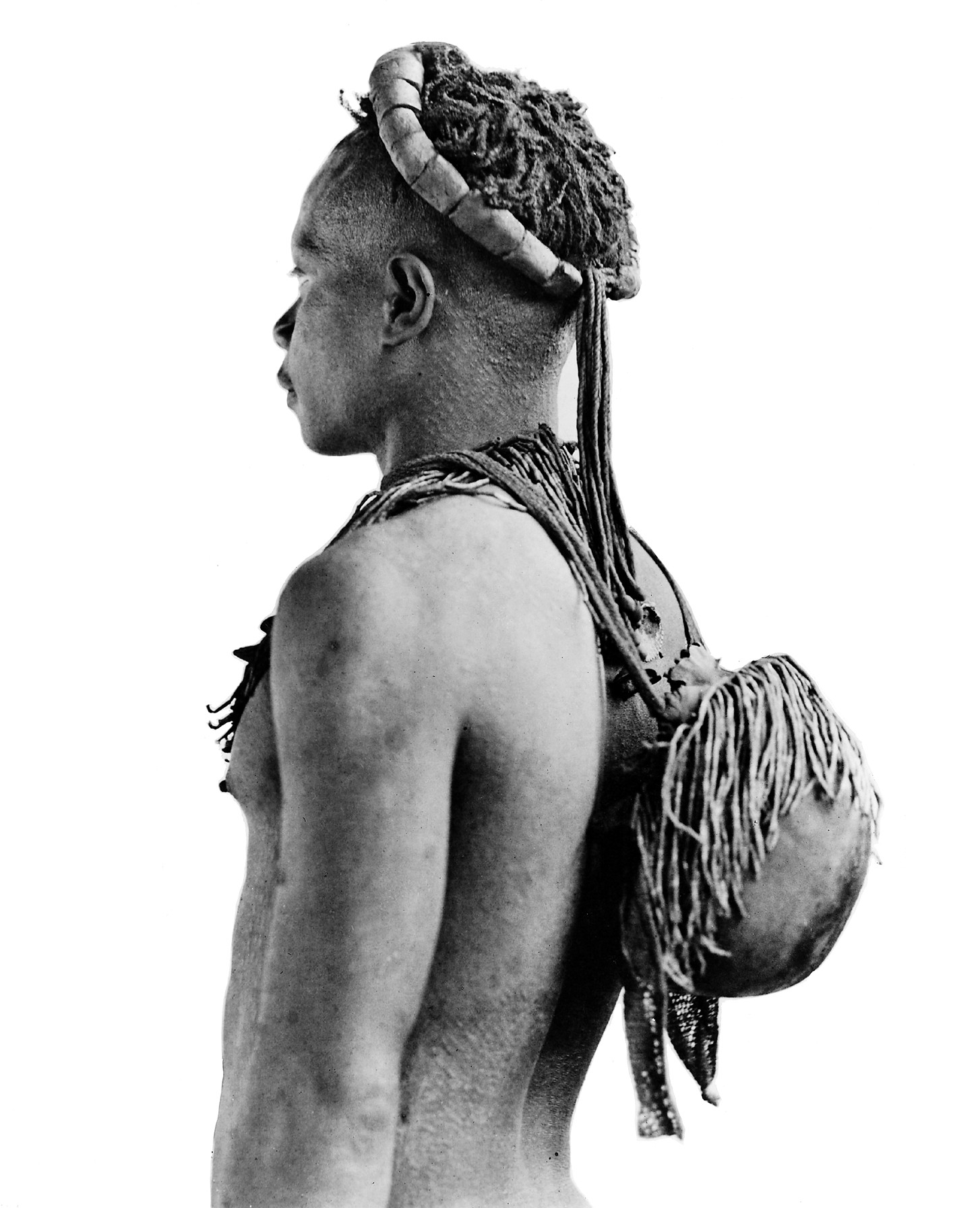 Native wearing the skull of dead relative, suspended down back with string of small bones round head, Andaman Islands Wellcome Images Keywords: Death; Magic; Ethnography; mortuary techniques; indigenous medicine and culture; non-european medicine